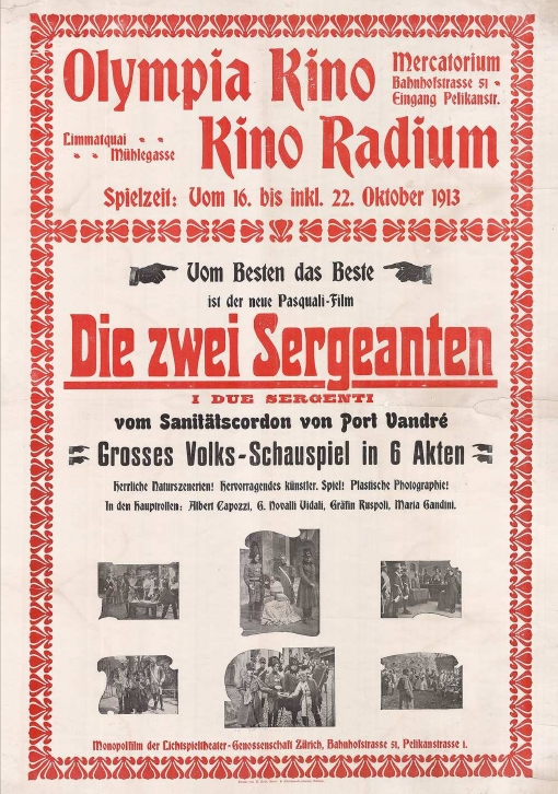 Kino Radium and Olympia Kino, Zürich, cinema poster 16th of October, 1913